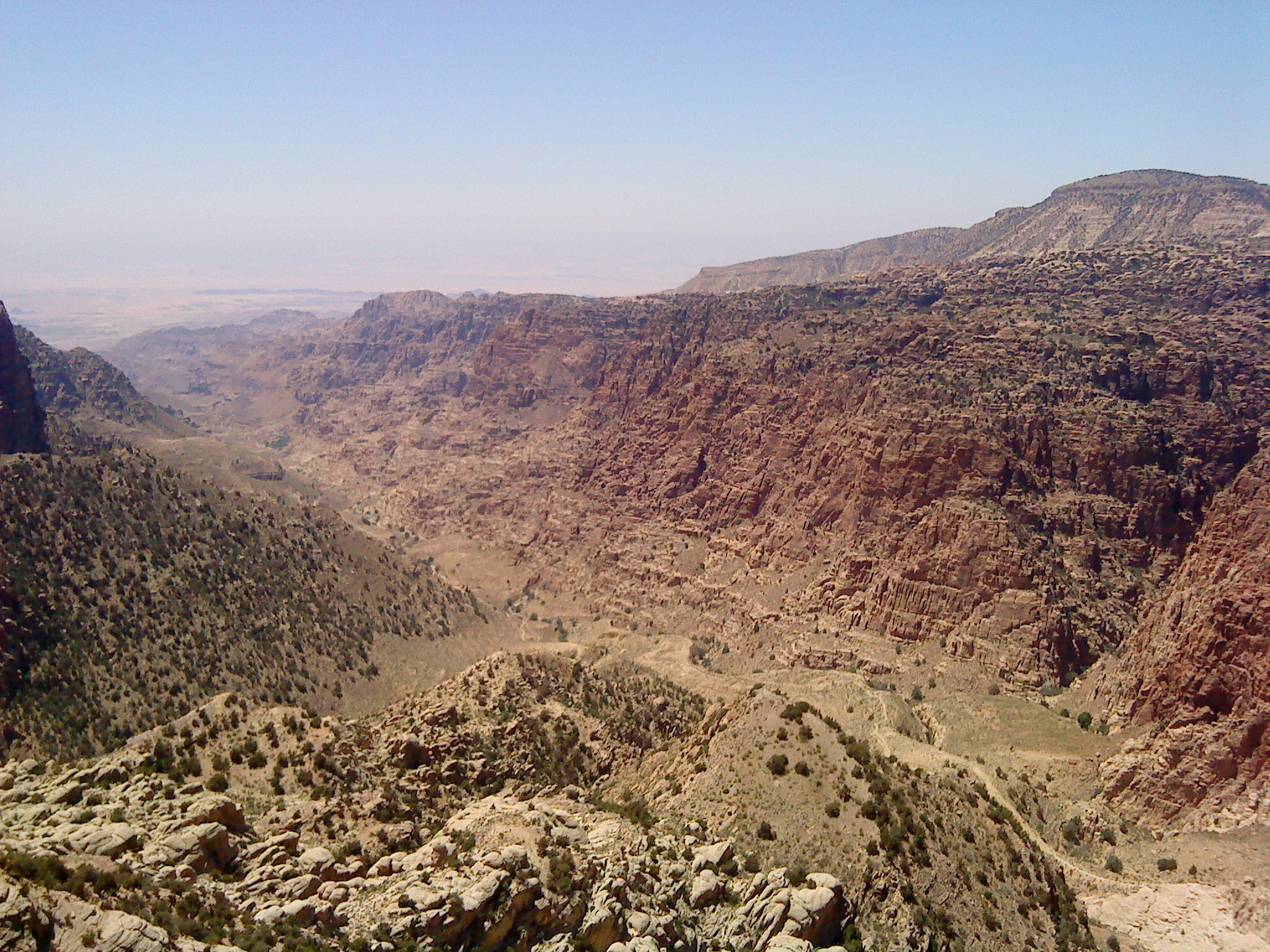 Dana Biosphere Reserve, Tafilah Governorate, Jordan.